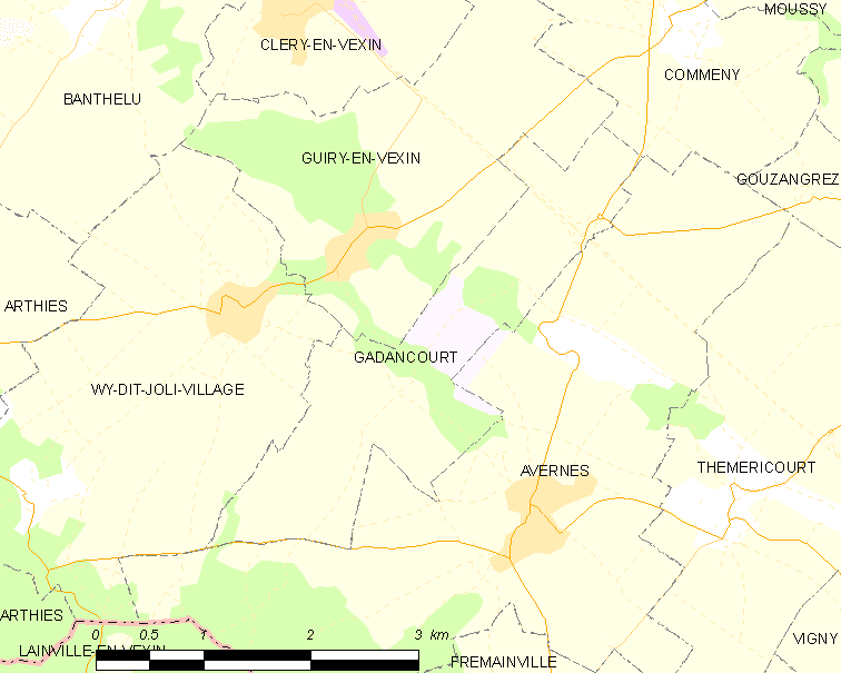 Map of French municipality Gadancourt